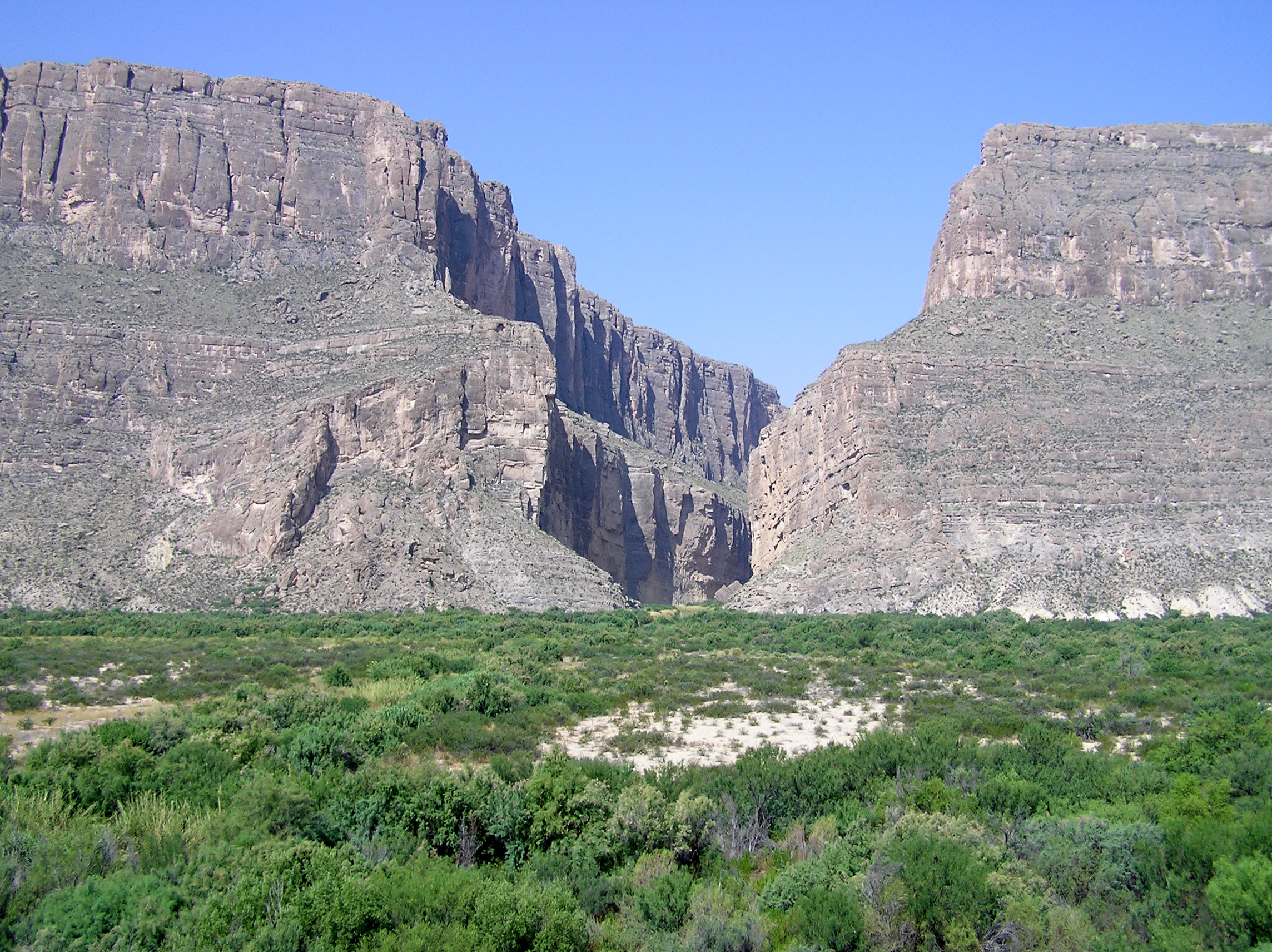 Location Santa Elena Canyon in Big Bend National Park Description Sometimes considered "three parks in one," Big Bend includes mountain, desert, and river environments. An hour’s drive can take you from the banks of the Rio Grande to a mountain basin nearly a mile high. Here, you can explore one of the last remaining wild corners of the United States, and experience unmatched sights, sounds, and solitude.